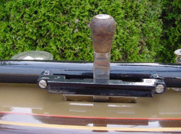 1920 James 225 cc 2¼ HP two stroke motorcycle gear change lever through the fuel tank